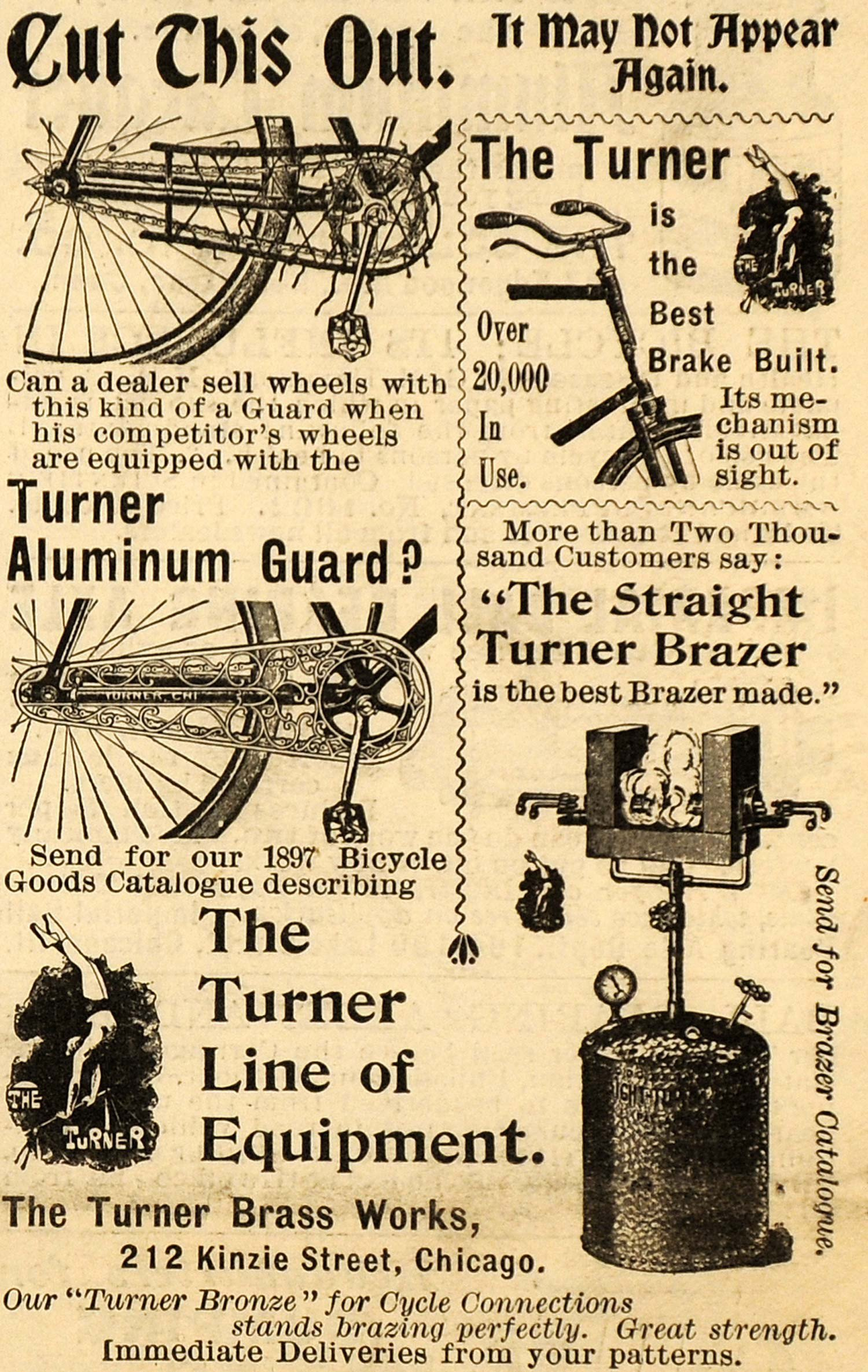 A 1897 advertisement prospect from The Turner Brass Works. Features the arising aluminum spelling